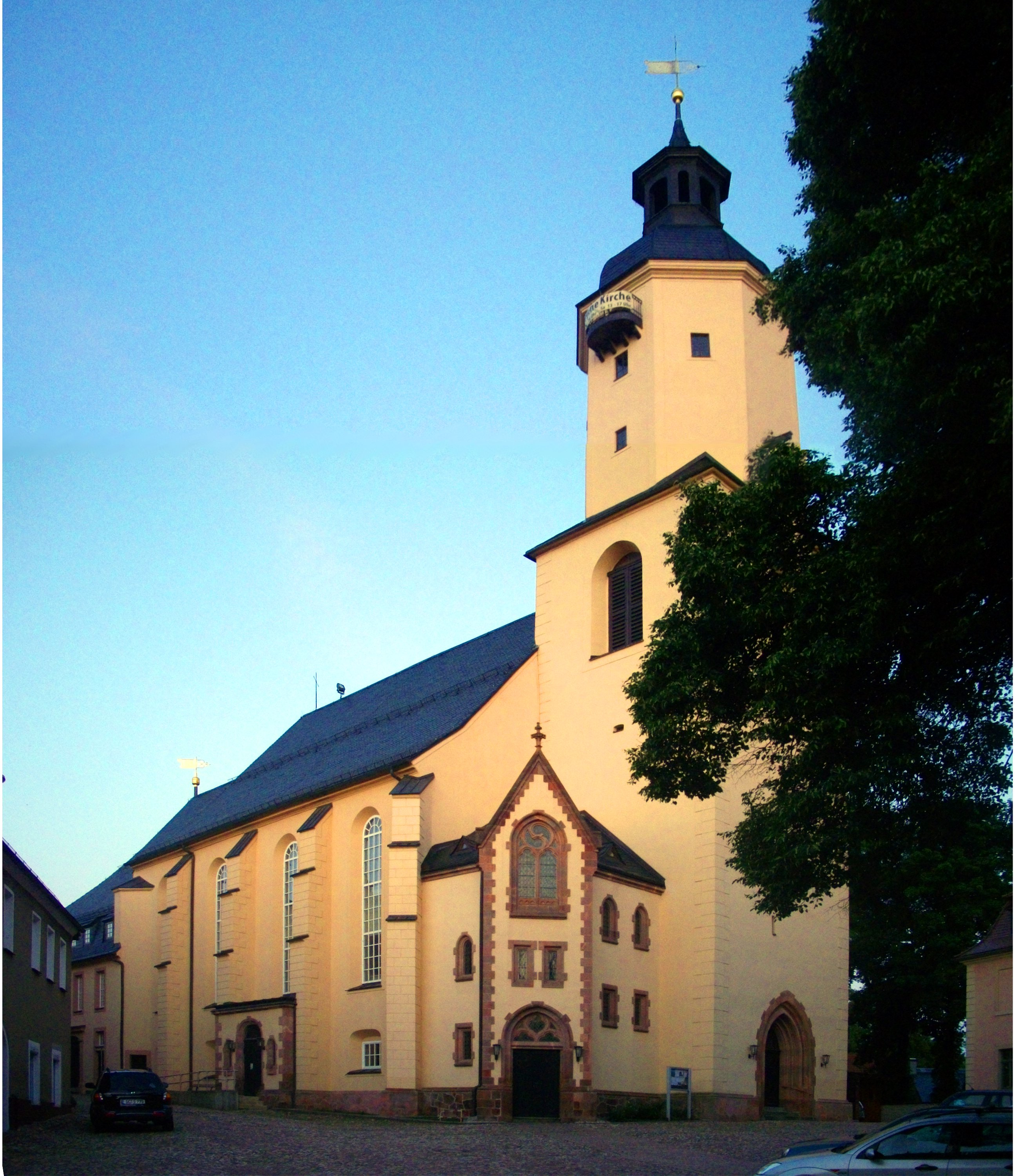 Church Saint Georg in Glauchau near Chemnitz/Saxony